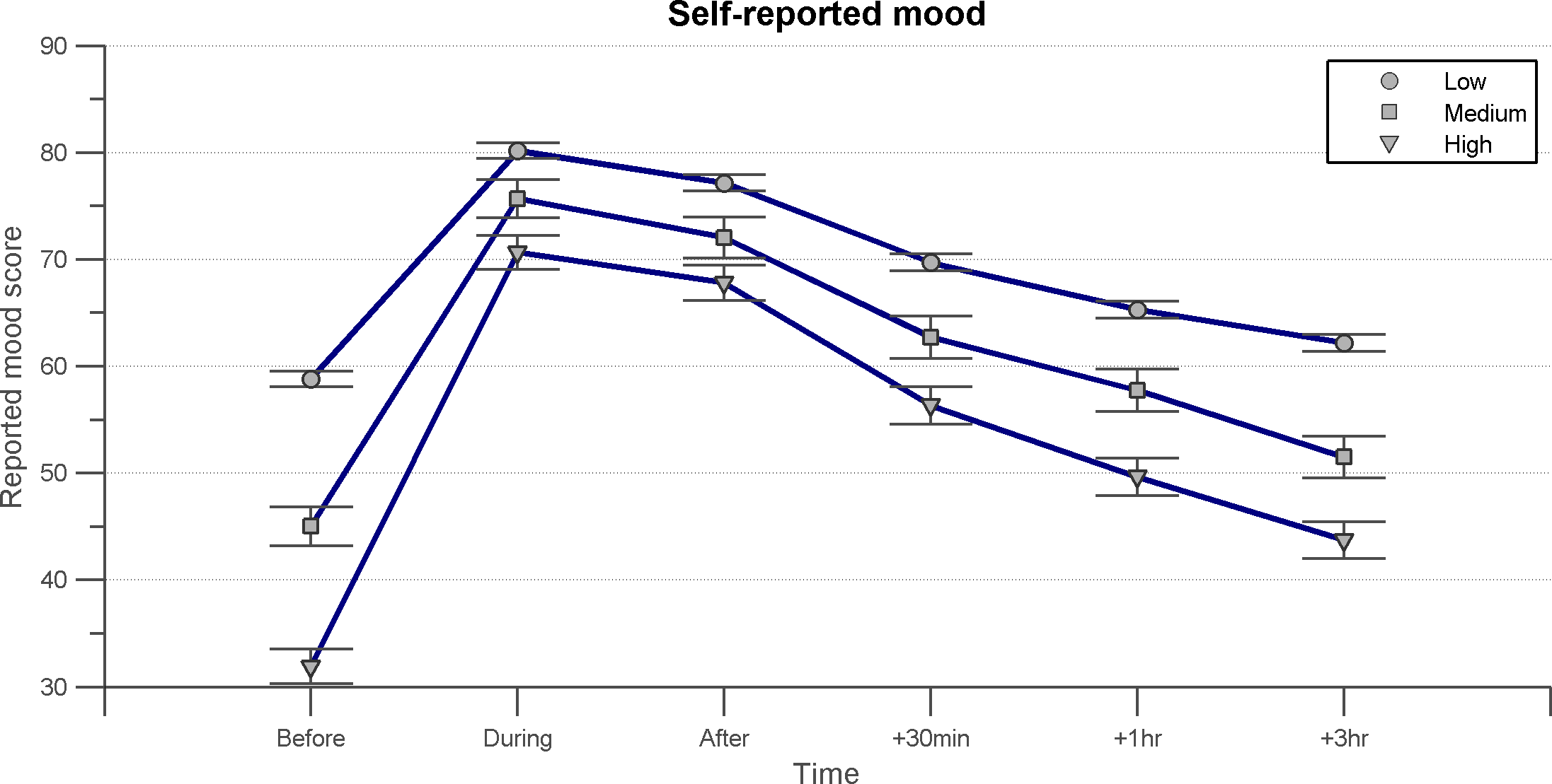 The time course of mood before, during, immediately following, and several hours after engaging in ASMR. Data shown is the mean mood score given to each time frame by all participants (N = 475), with participants grouped according to their Beck Depression Index. Mood scores could range from 0 to 100, 0 representing the worst the individual had ever felt, 100 representing the best they have ever felt. Error bars represent ±1 standard error.